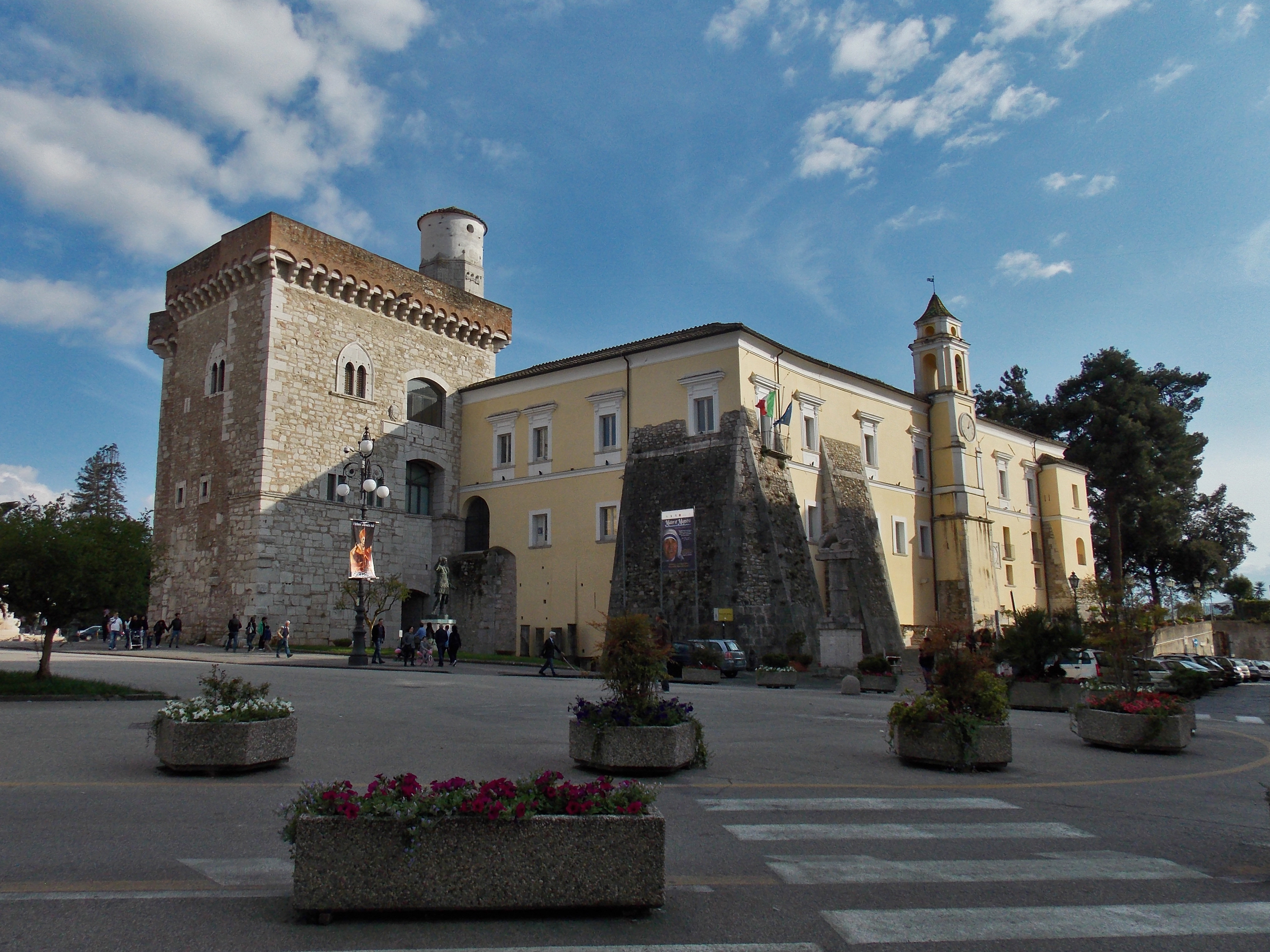 Rocca dei Rettori seen from Piazza Castello, Benevento